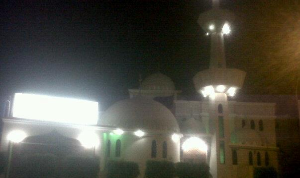 Mosque Bab ul Islam at night